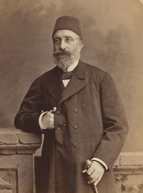 Midhat Pasha, Ottoman statesman.